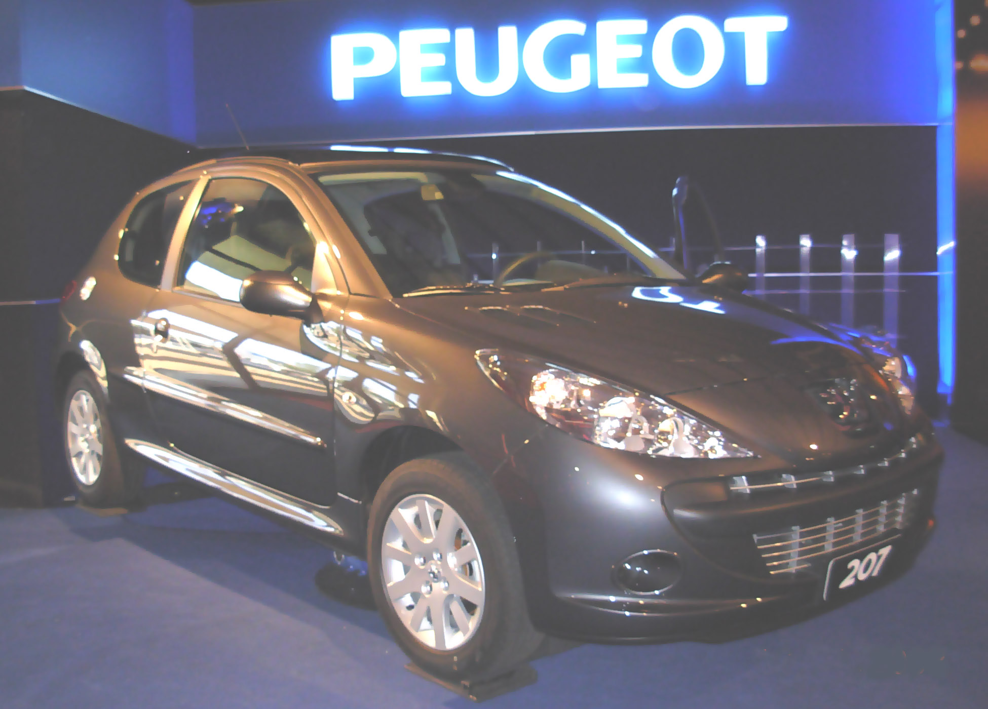 Peugeot 207 Compact 3-door (South American-market 2009 Peugeot 206) at the 2008 Montevideo Motor Show.